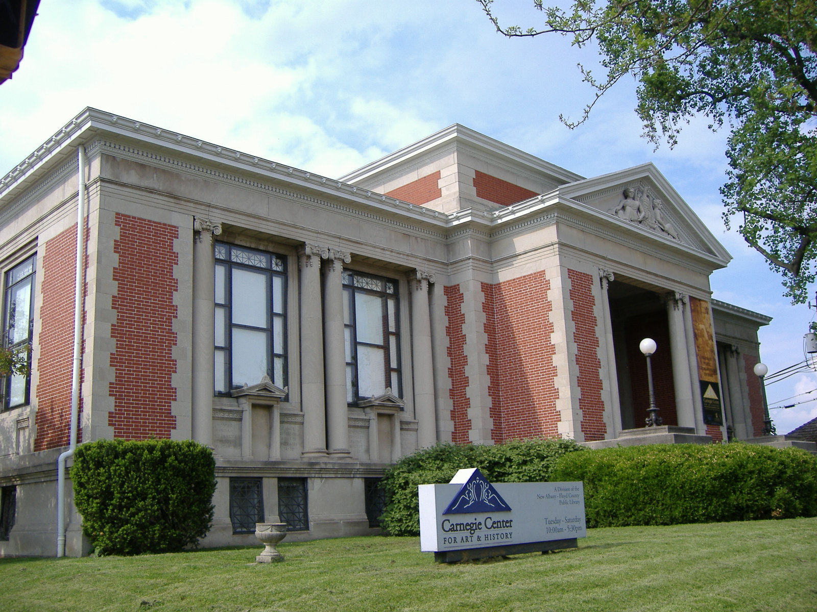 The old Carnegie Library located in the New Albany Downtown Historic District of New Albany, Indiana.